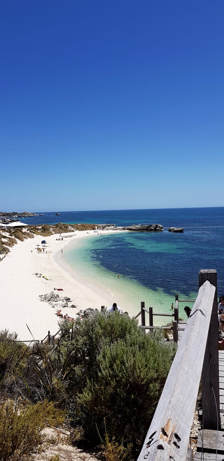 This image captures the view of Pinky's Beach from the descending wooden steps. It was taken during the summertime. It was taken by a phone camera.